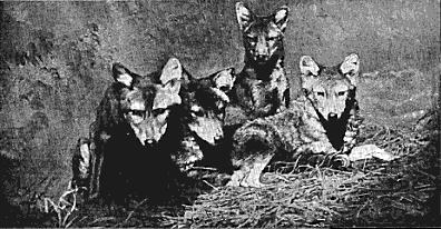 A group of Siam jackals